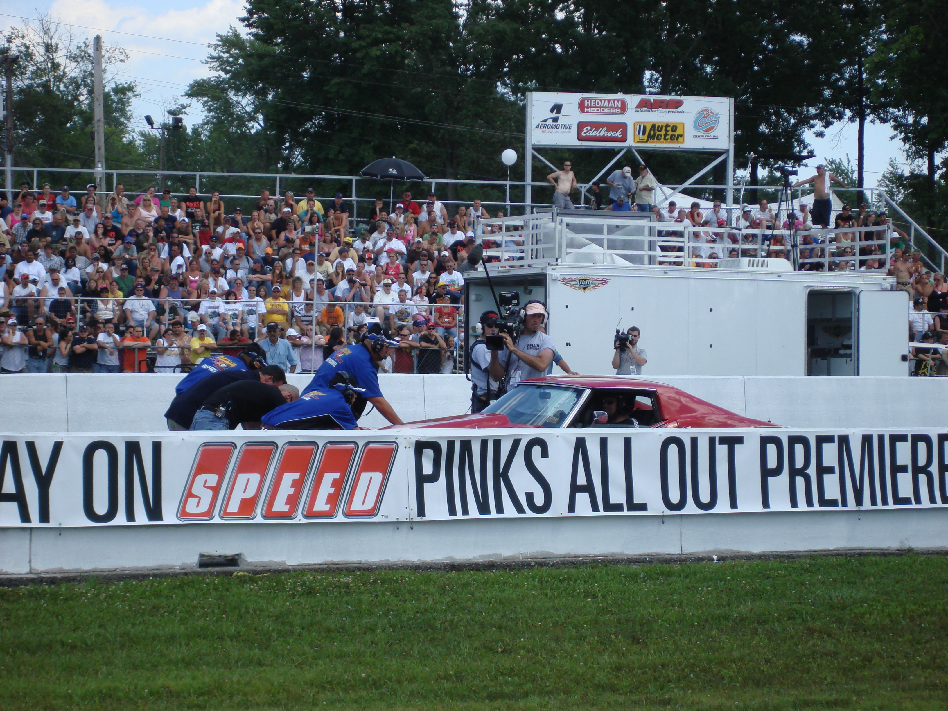 Taping the American television show "Pinks All Out" at Milan Dragway.